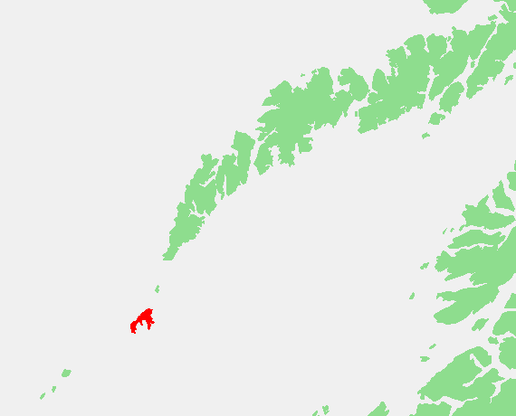 Island of Norway - Vaeroy.PNG